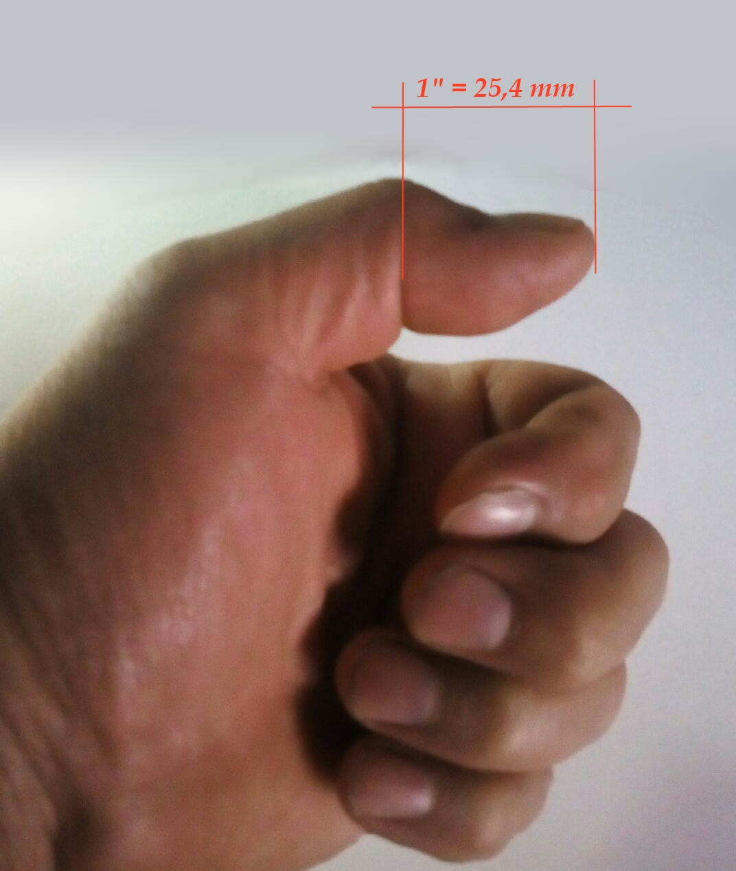 Illustrative illustration of the unit of measurement of inch length